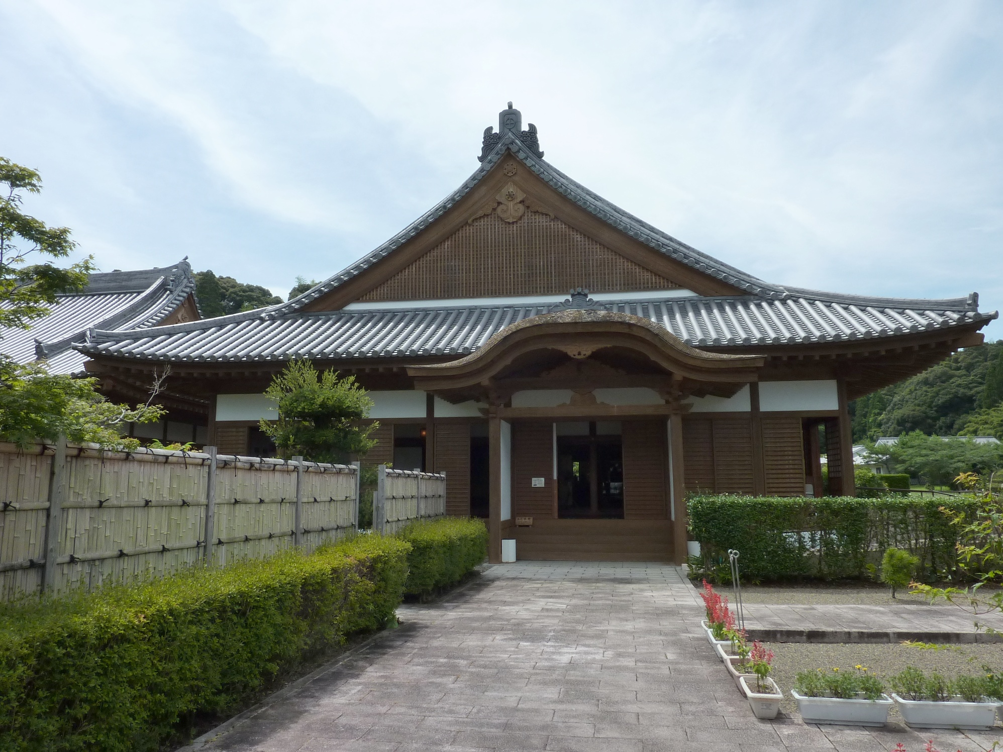 Former Sadowara Castle - Sadowara Museum "Kakusho-kan" (Sadowra, Miyazaki City, Japan)